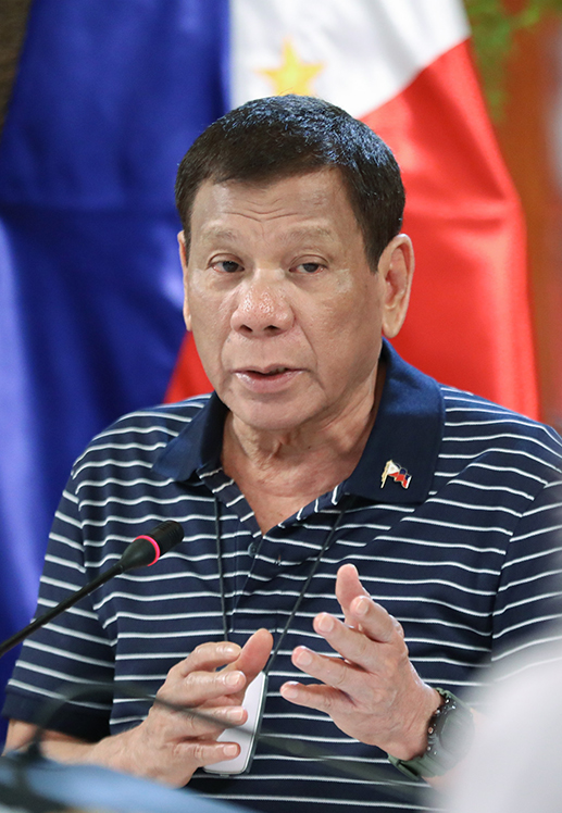 President Rodrigo Roa Duterte holds a meeting with members of the Inter-Agency Task Force on the Emerging Infectious Diseases (IATF-EID) at the Malago Clubhouse in Malacañang on May 25, 2020.